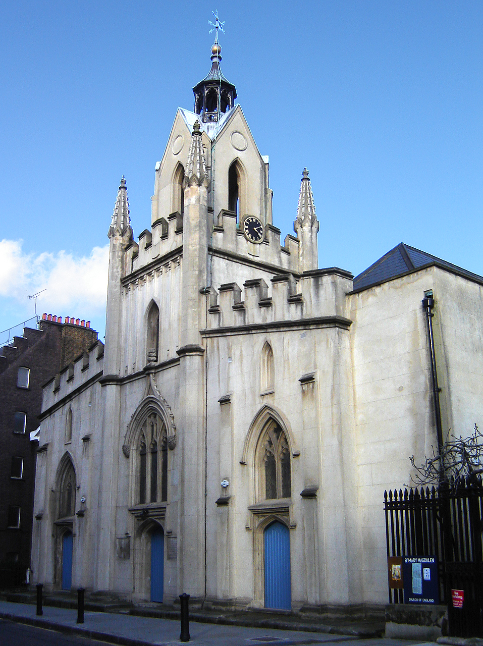 "St Mary Magdalen Church, Bermondsey"